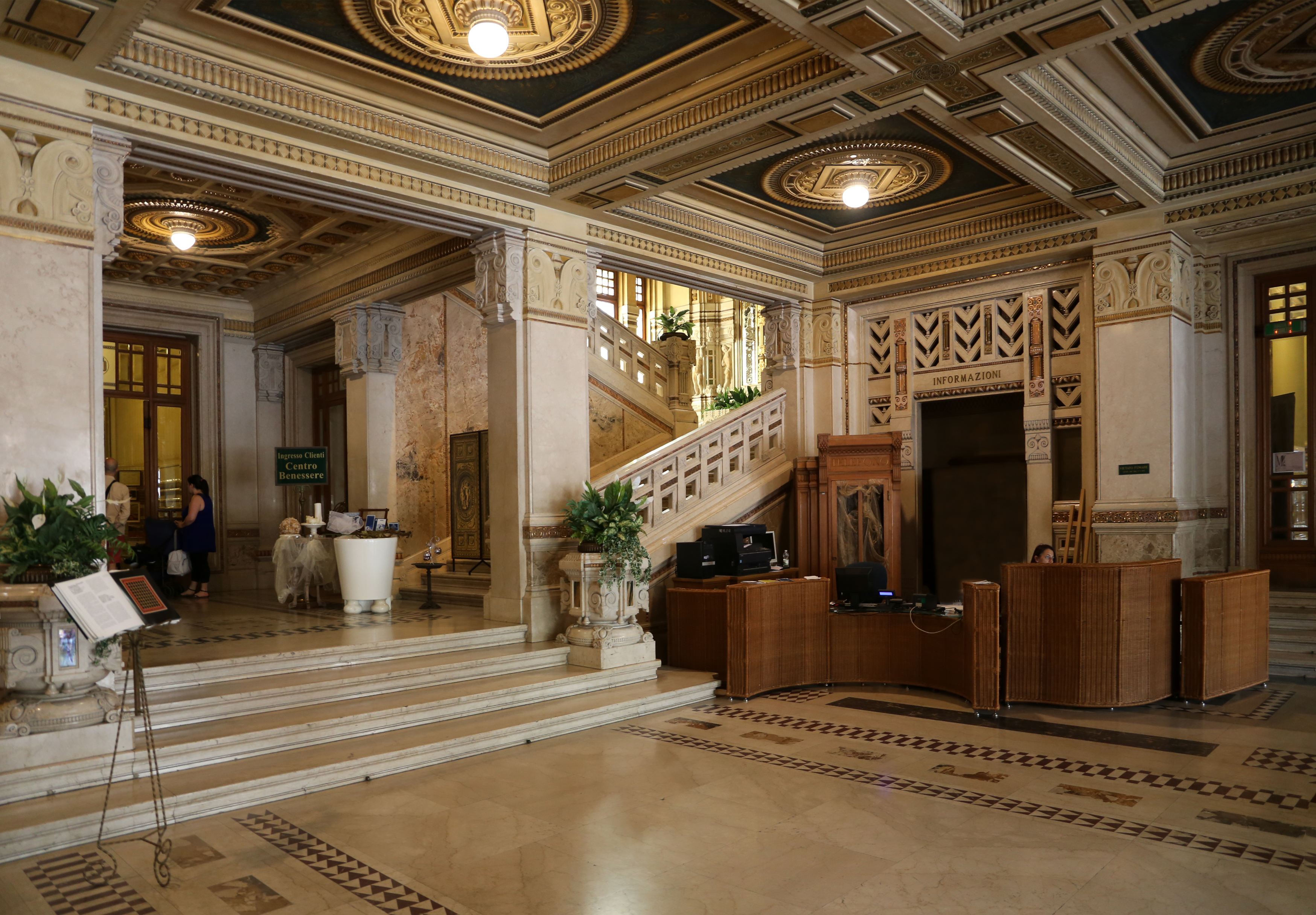 Terme Berzieri - Interior